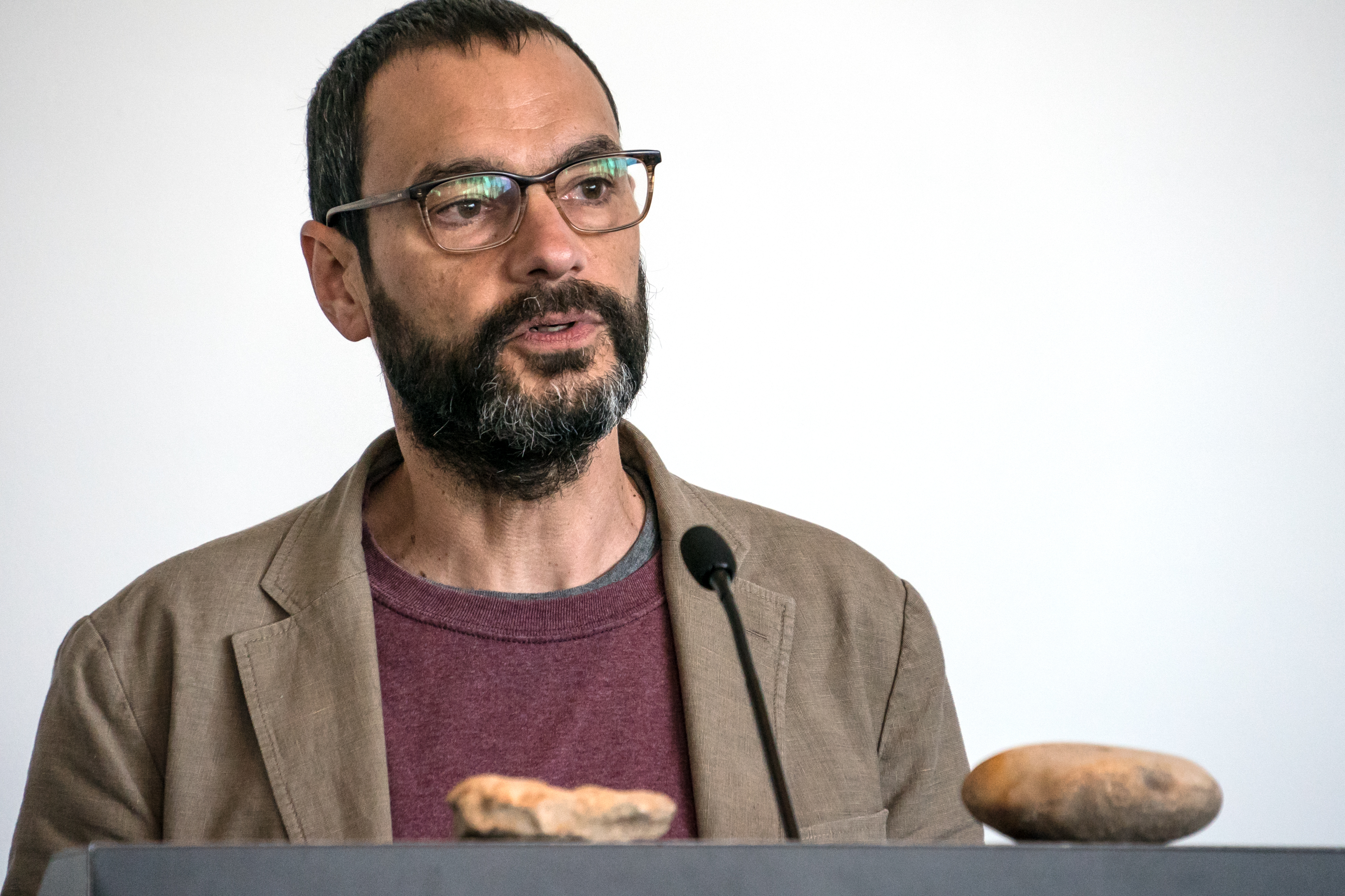 Sam Durant's "Scaffold" is a wood & steel sculpture that was to be placed in the Minneapolis Sculpture Garden. It is a composite of the representations of 7 historical gallows used in US state-sanctioned executions by hanging between 1859 and 2006. One of them being the gallows constructed in Mankato, Minnesota to simultaneously hang 38 Dakota men on December 26, 1862 on orders signed by President Lincoln following the U.S.-Dakota War. The Mankato execution is the largest one-day execution in American history.